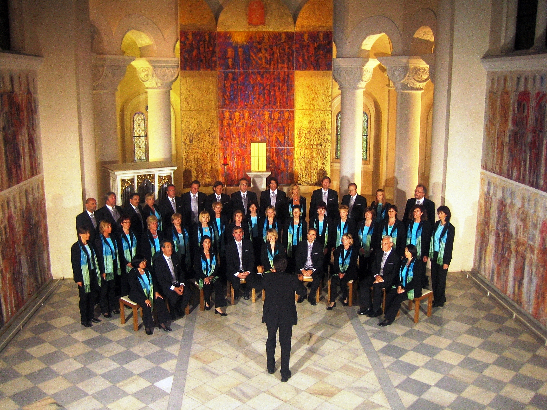 Kammerchor Klagenfurt under the guidance of Christian Liebhauser-Karl at a concert in Tanzenberg castle near Sankt Veit an der Glan / Carinthia / Austria / EU.